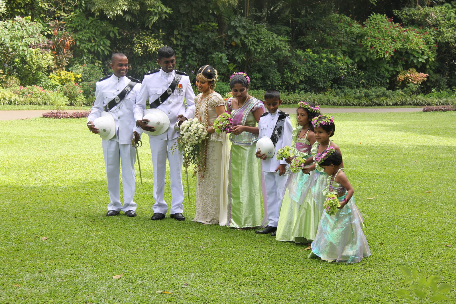 Wedding in Kandy Sri Lanka